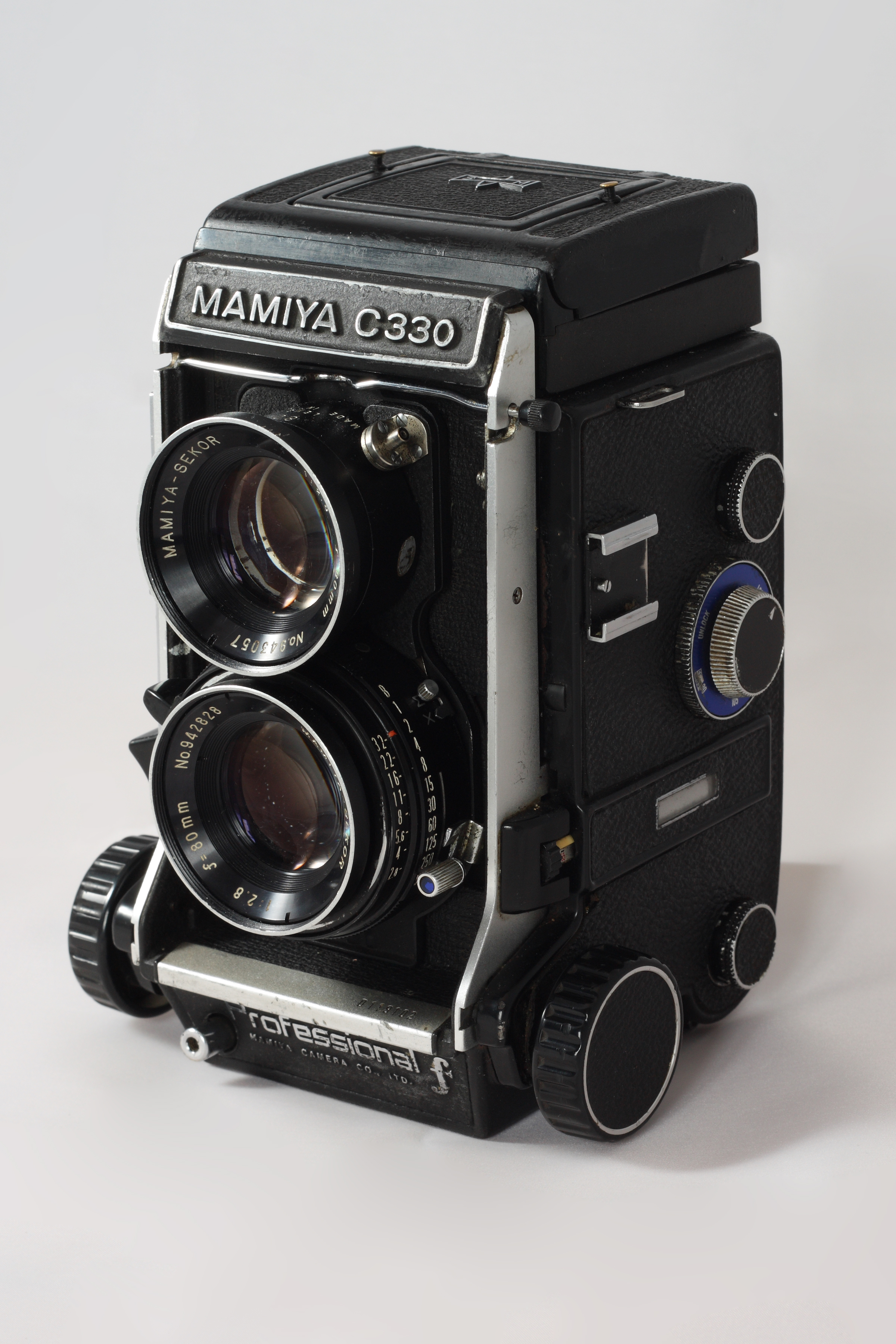 A Mamiya C330 Pro F medium format camera.